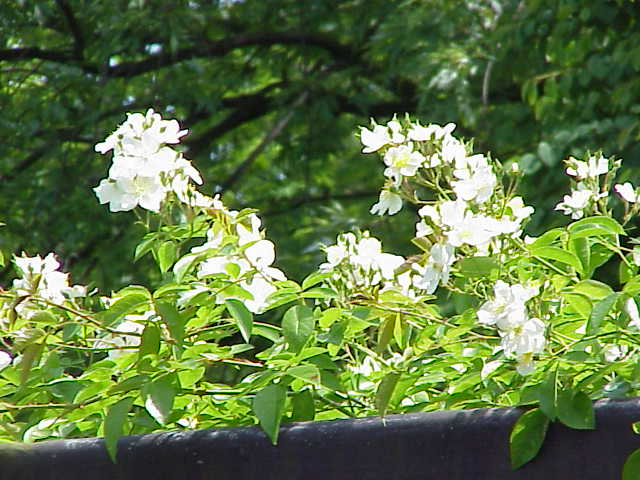 Species: Rosa sp. Family: Rosaceae Cultivar: 'Kiftsgate', E. Murell 1954 Image No. 159